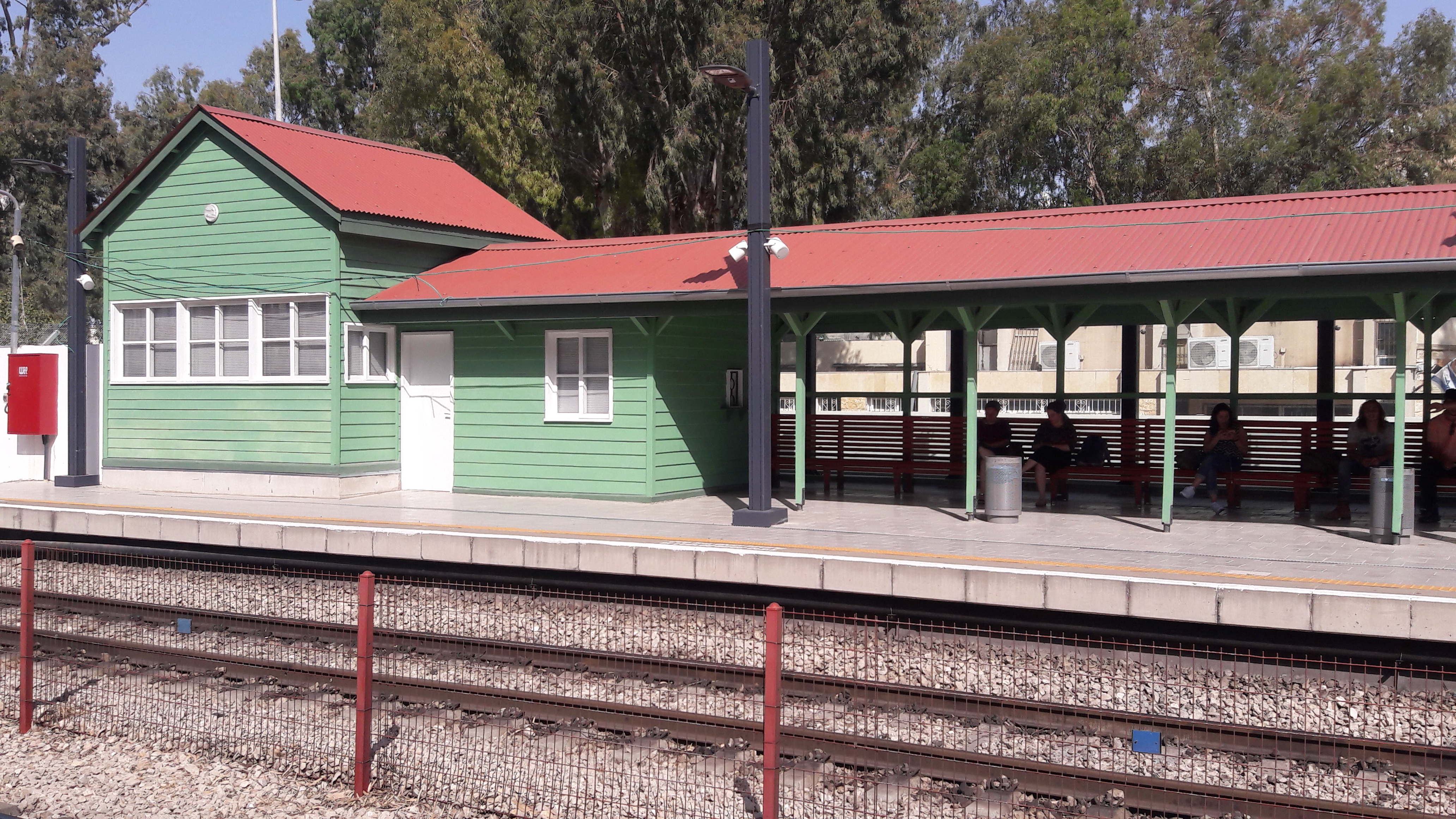 Kiryat Motzkin Railway station which underwent renewal, 2017